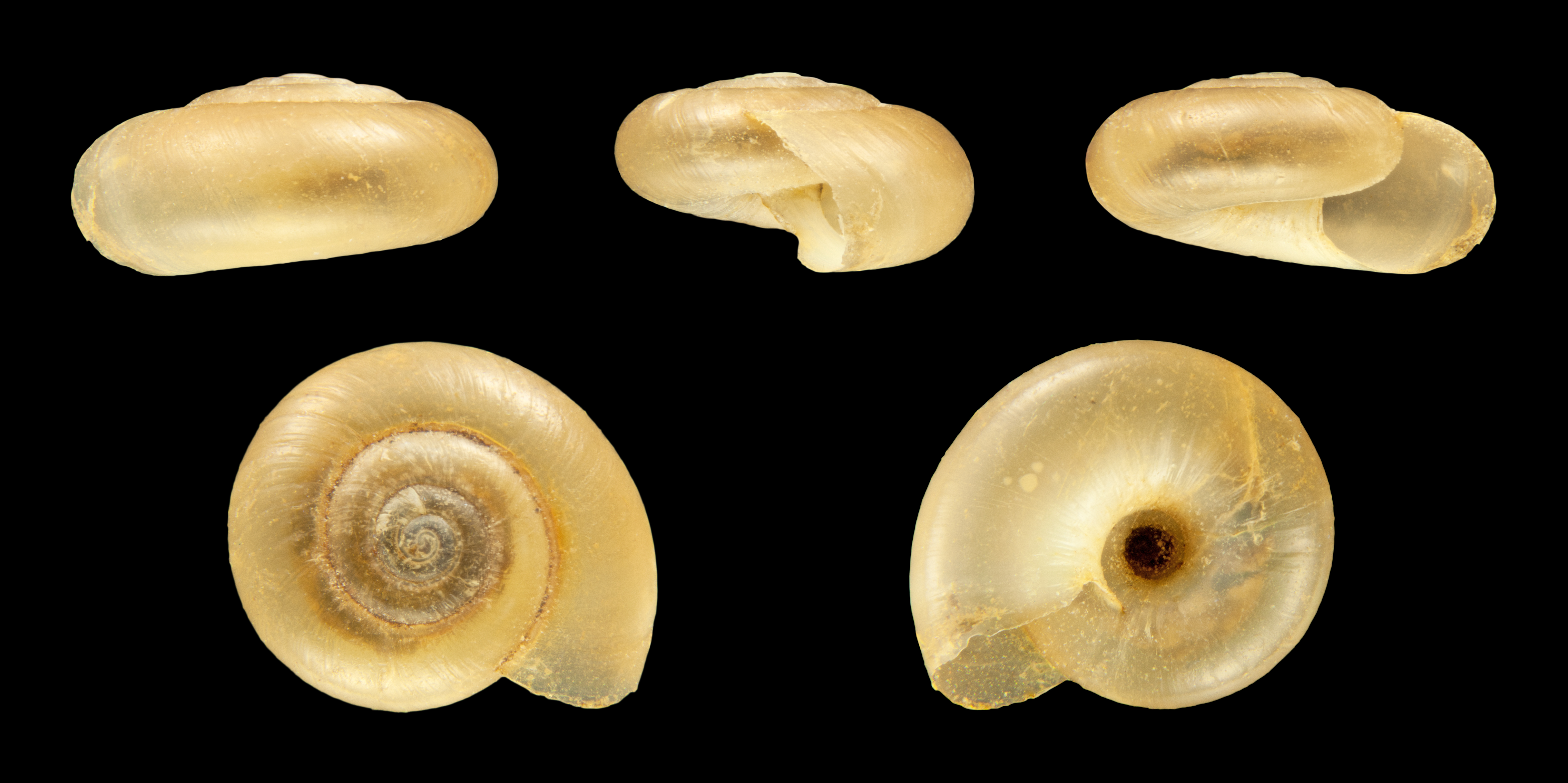 Zonitoides nitidus (Müller, 1774); Diameter 0.7 cm; Originating from Walzbachtal - Jöhlingen, Germany. Shell of own collection, therefore not geocoded.